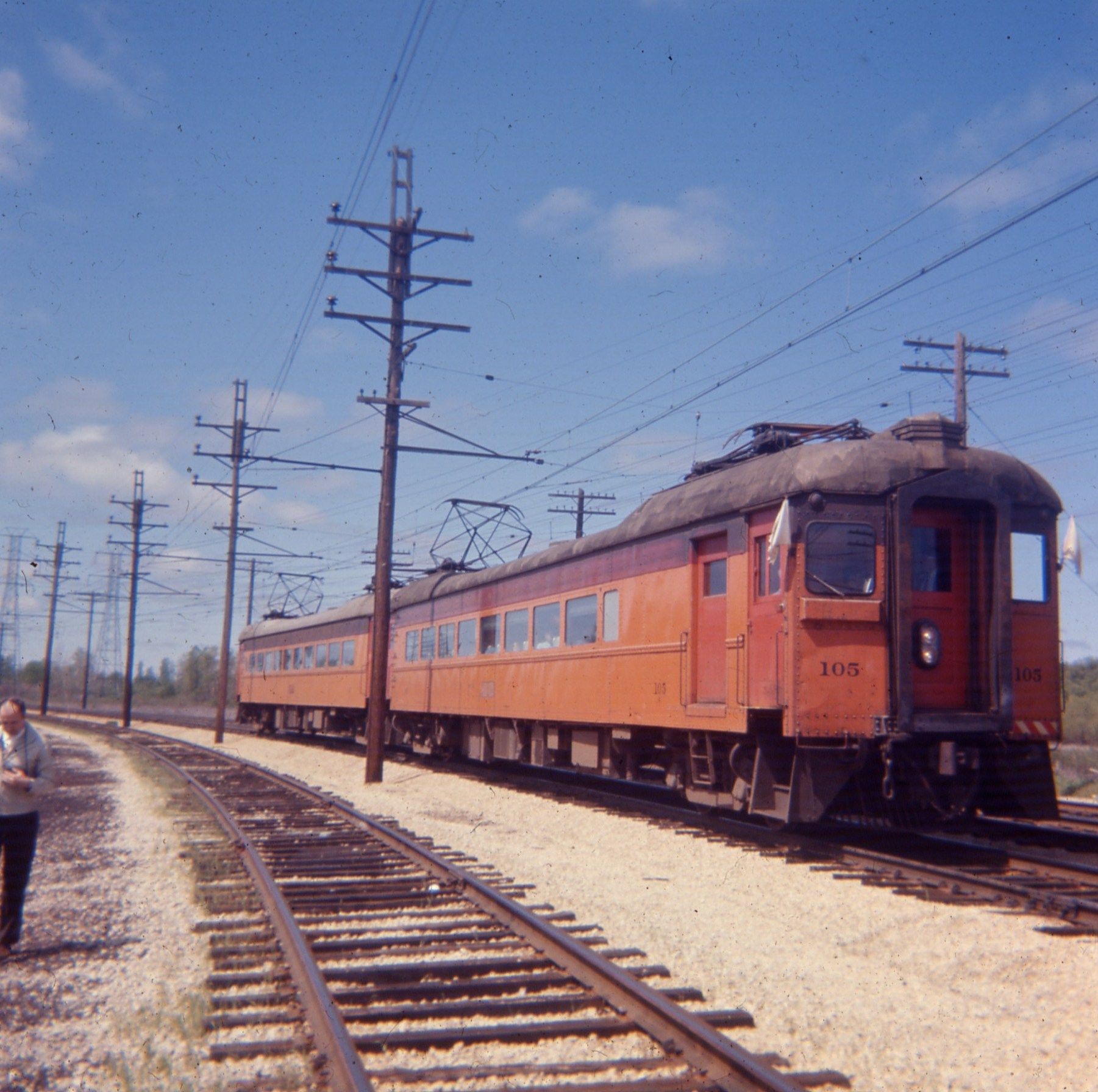 A South Shore Line train in Sheridan, Indiana in 1966.